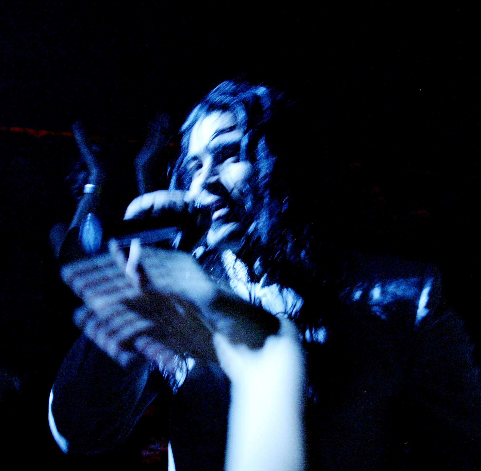 Bilal (Lebanese singer) in a live performance